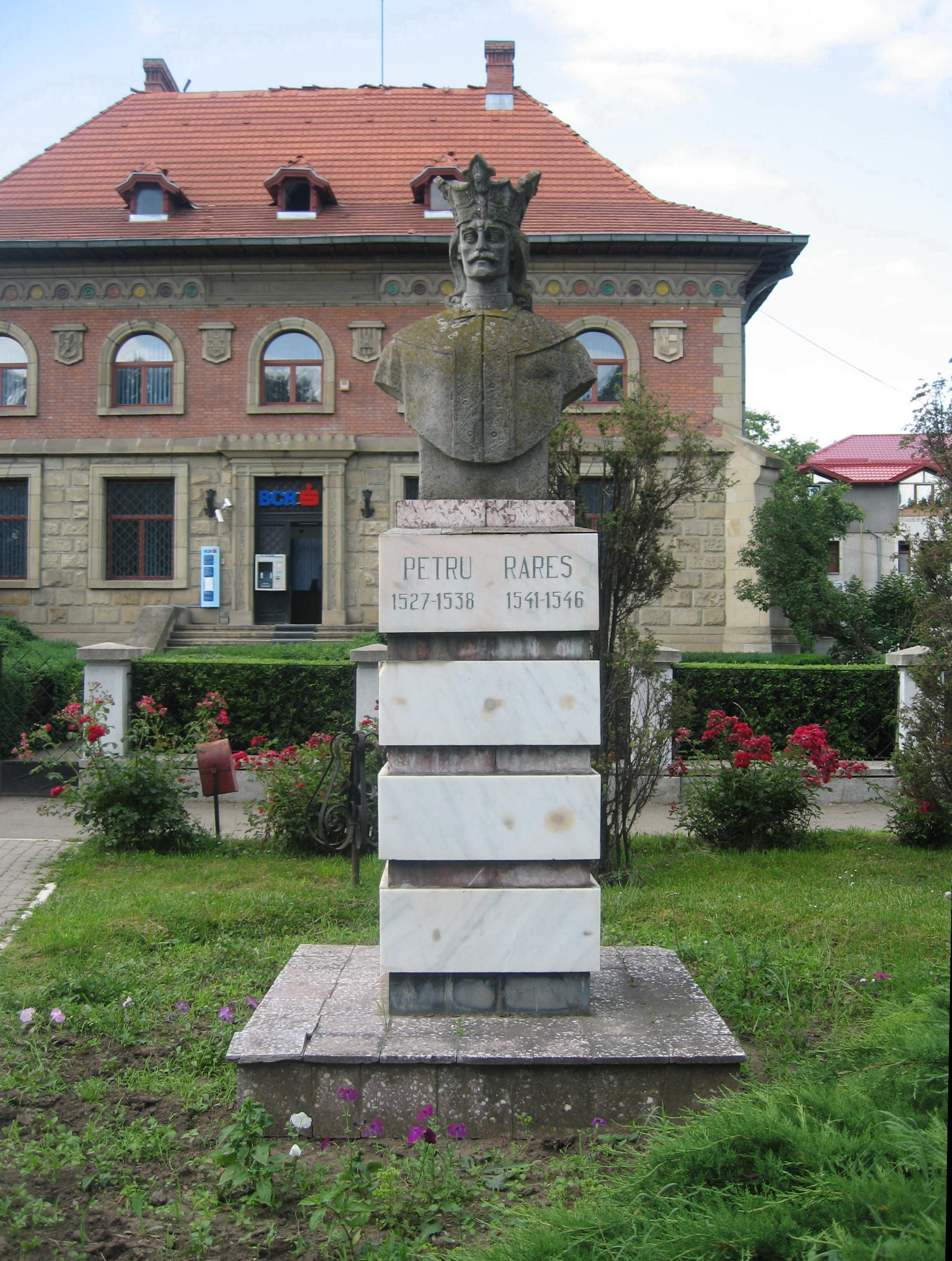 Statue of Petru Rareş in Radautz